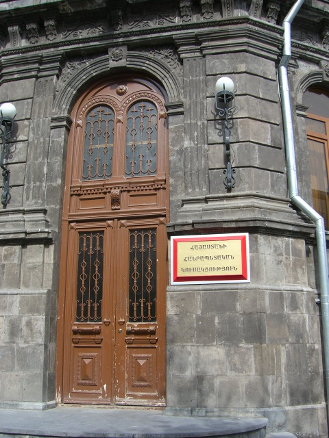 Headquarters of the Republican Party of Armenia